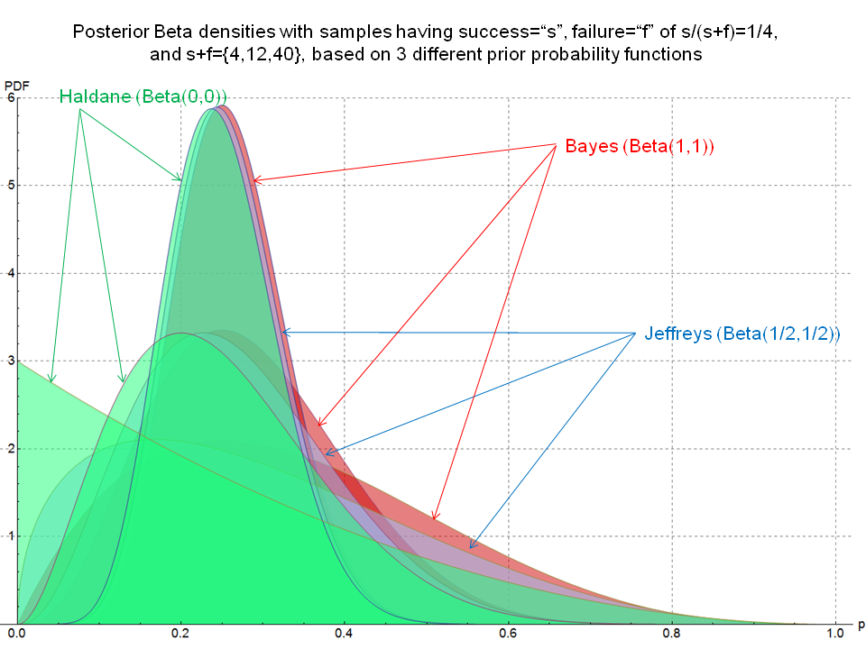 Beta distribution for 3 different prior probability functions, skewed case sample size = (4,12,40) - J. Rodal